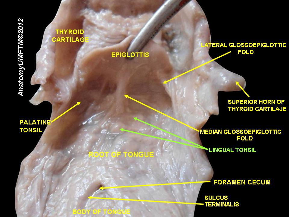 Anatomical dissections